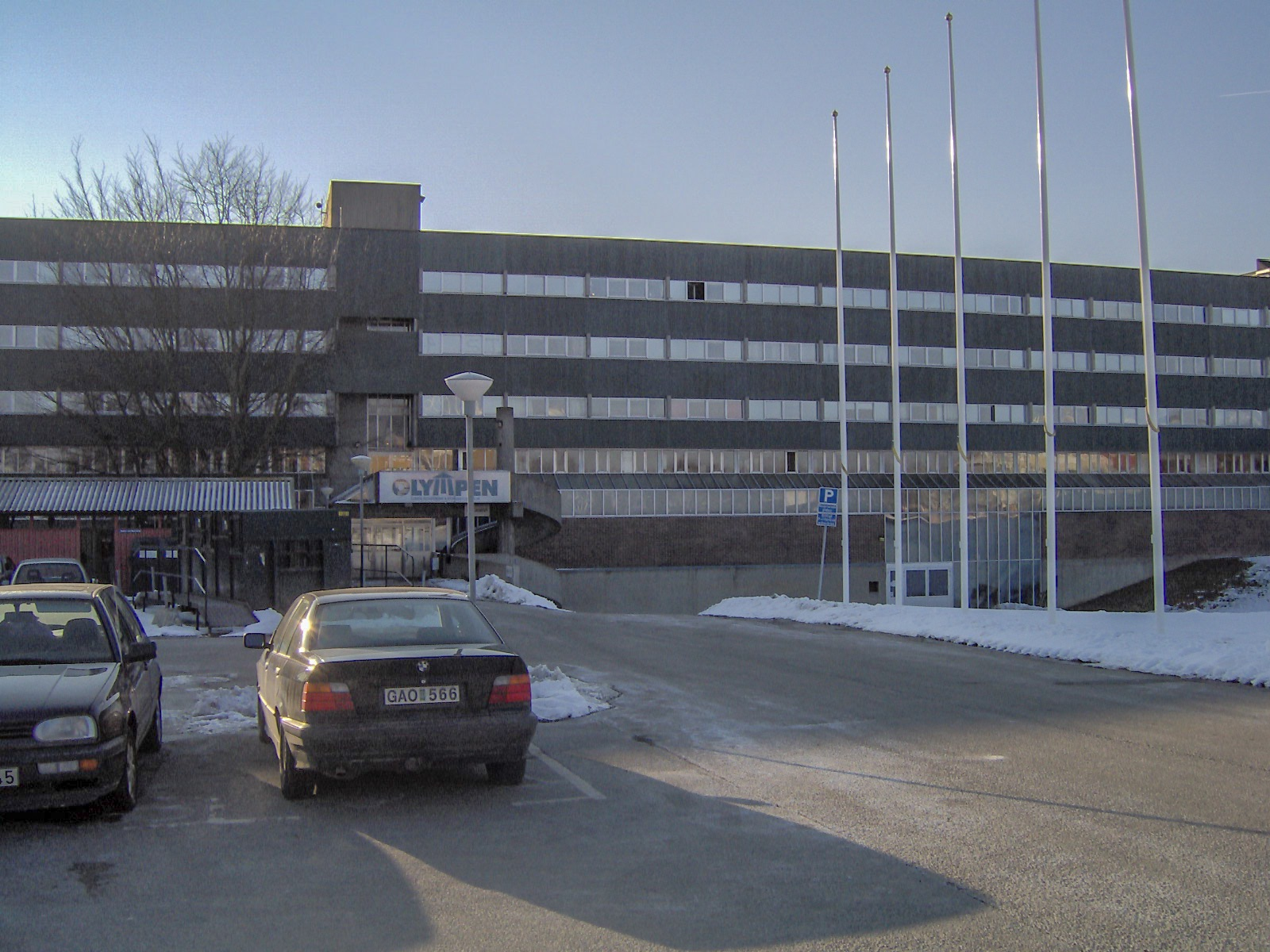 Sparta student campus, Lund, taken by Andreas Vilén, March 6th 2005